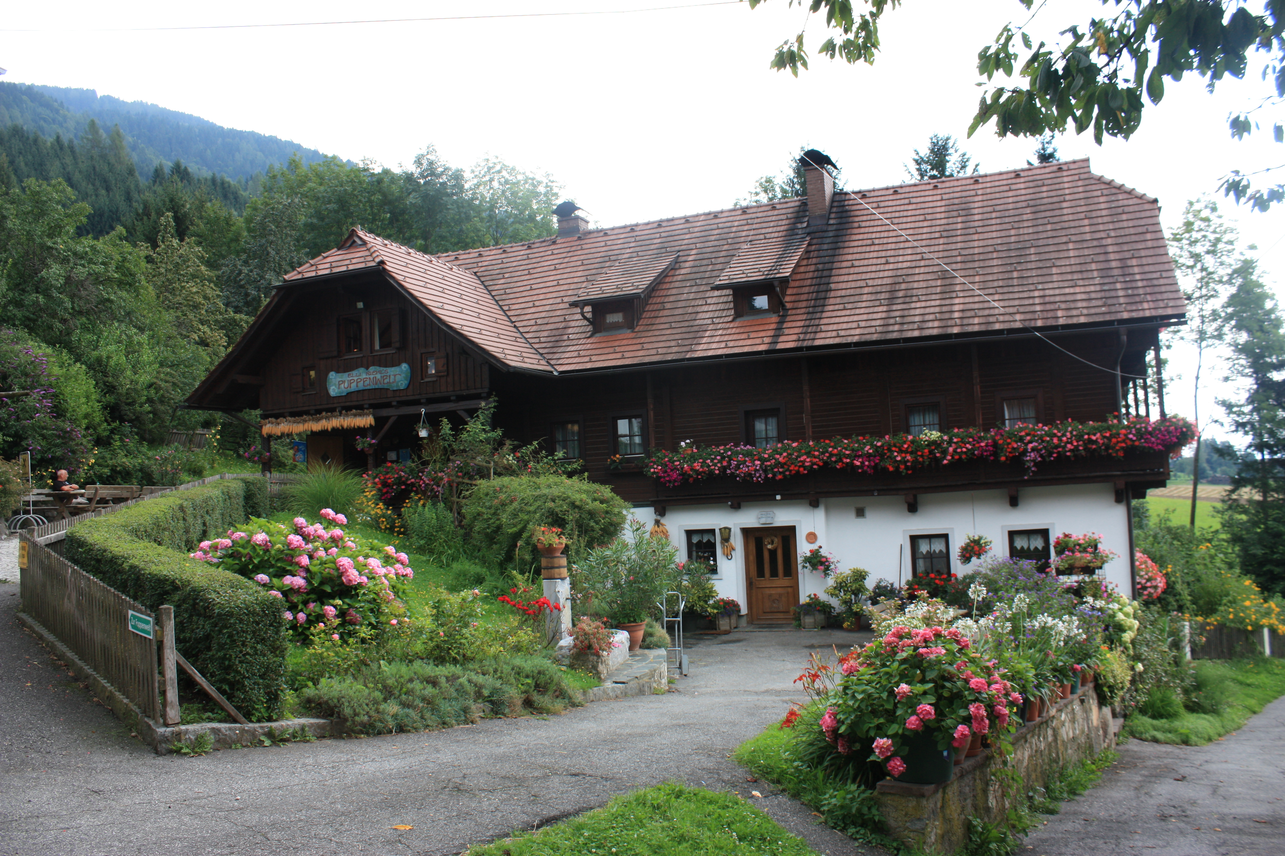 Elli Riehl Museum Locality:Winklern Community:Treffen